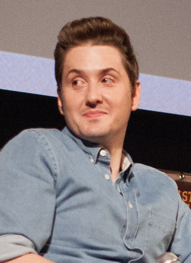 Anomalisa Q&A with Charlie Kaufman Fantastic Fest 2015-0237.jpg